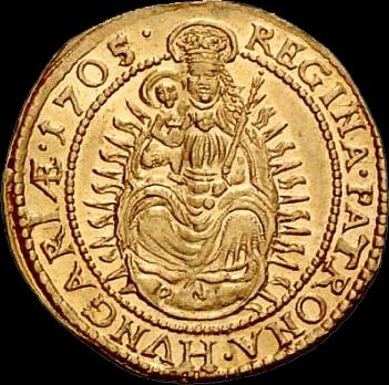 1 ducat coin, Hungary, Francis II Rákóczi (1705, NB) reverse [Huszár: 1522; Unger: 1125]